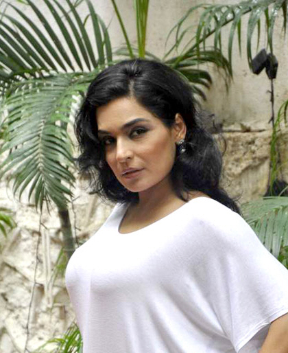 Pakistani actress Meera's photo shoot